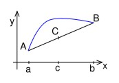 Concave (a) and convex (b) functions